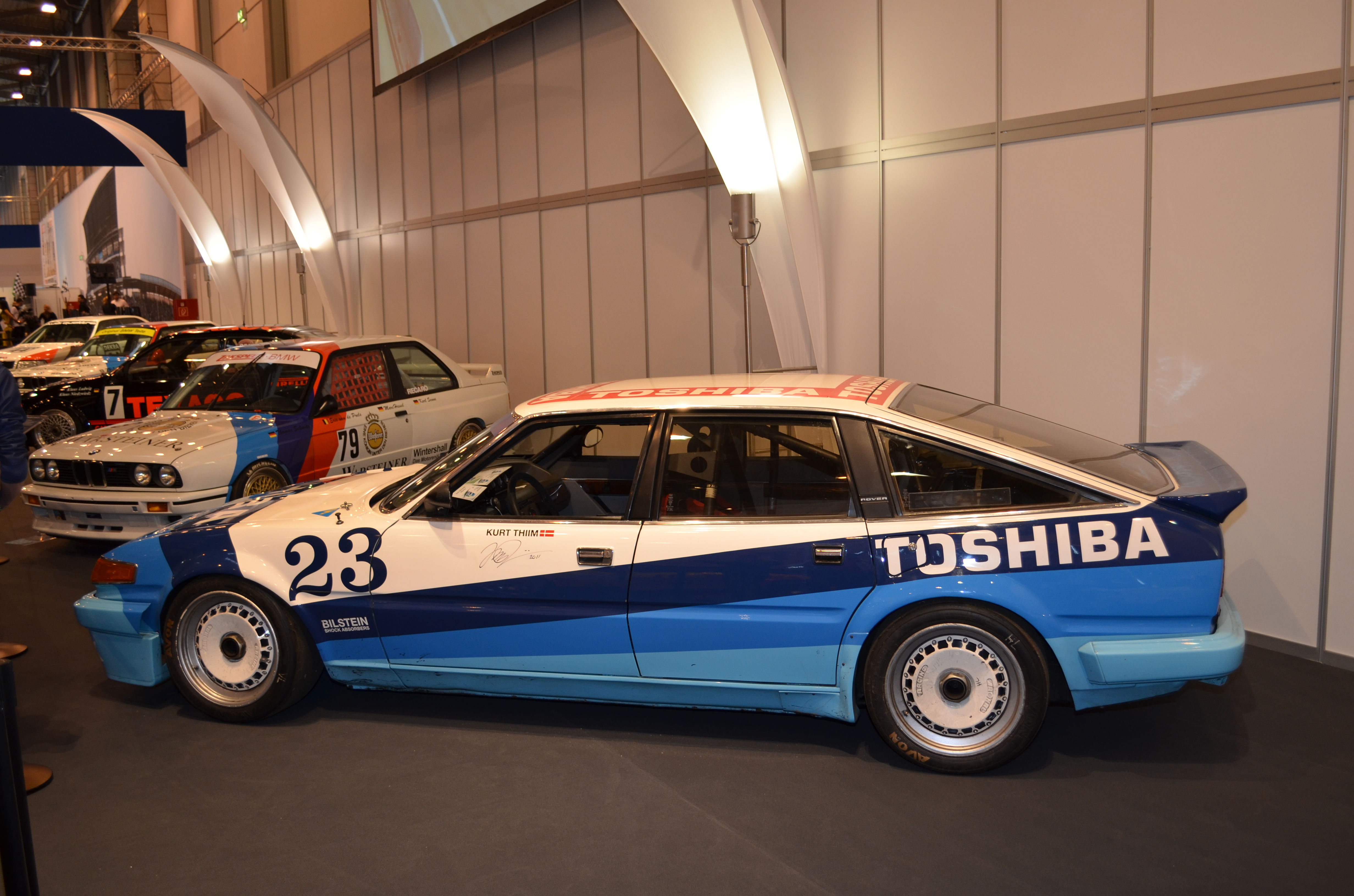 Rover SD1, Motorshow Essen